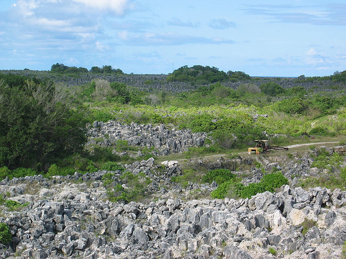 Coral reef on the beach in Nauru